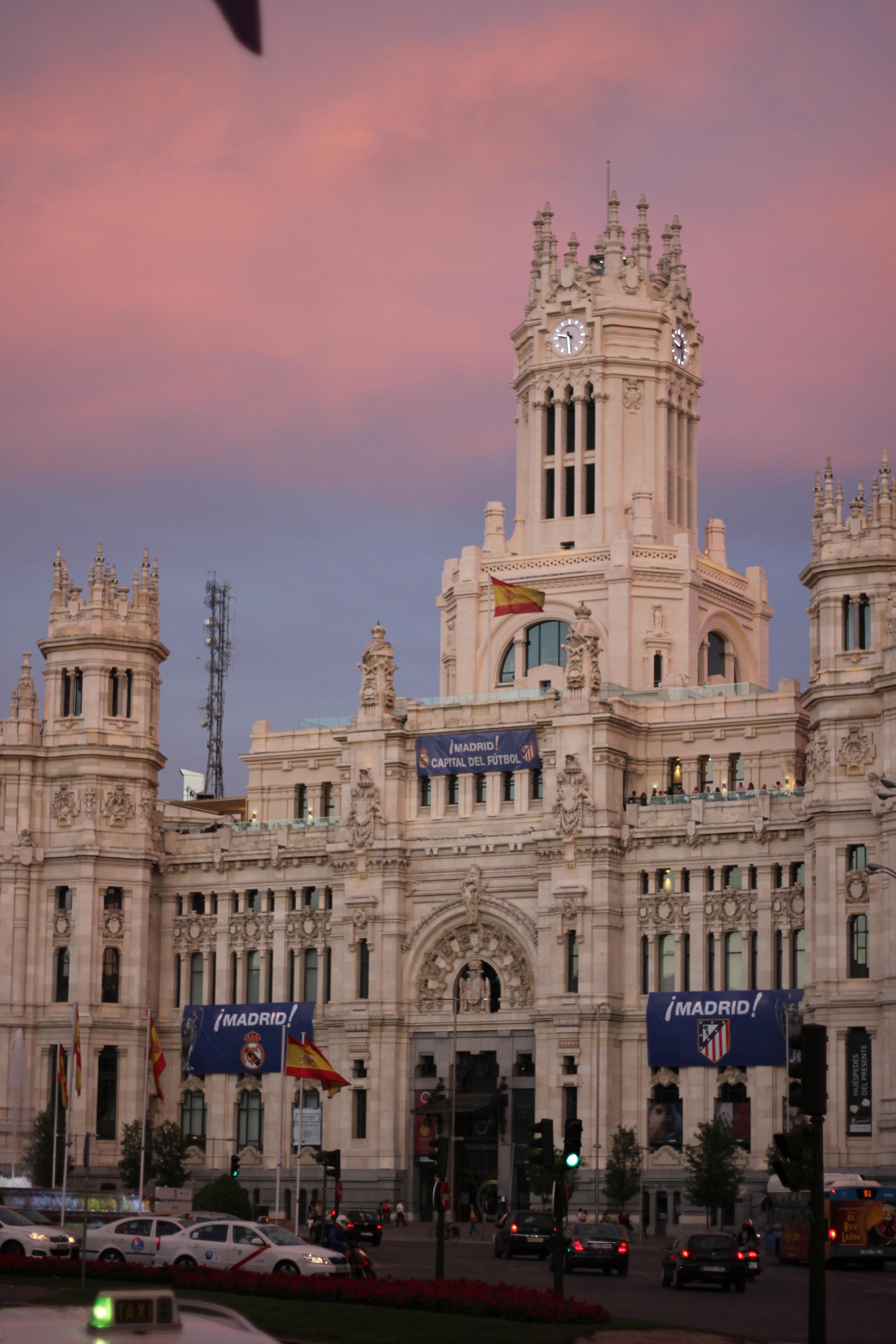 Real Madrid v Atletico Signs Community of Madrid. Government buildings.